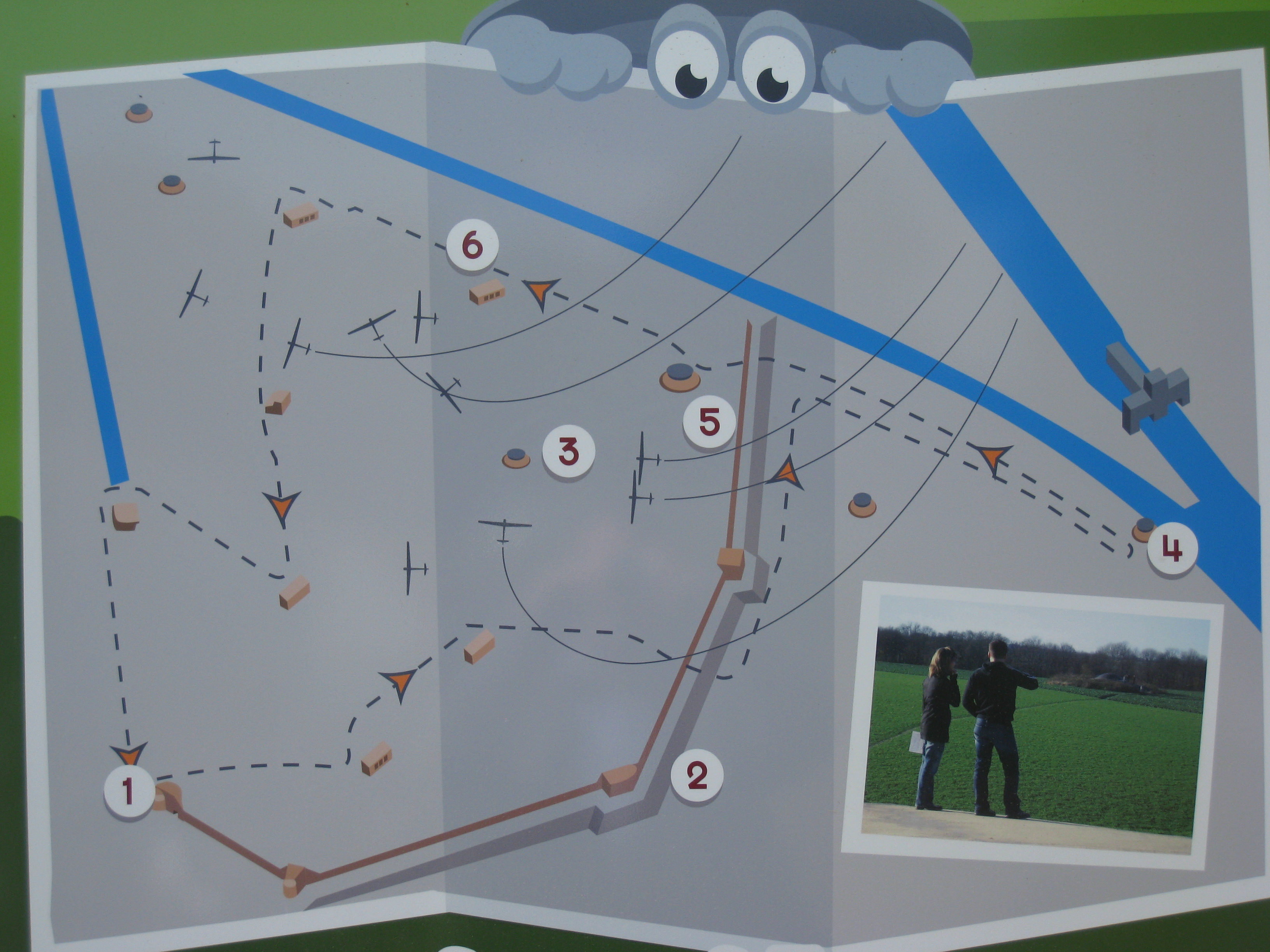 Attack Fort Eben-Emael, Belgium